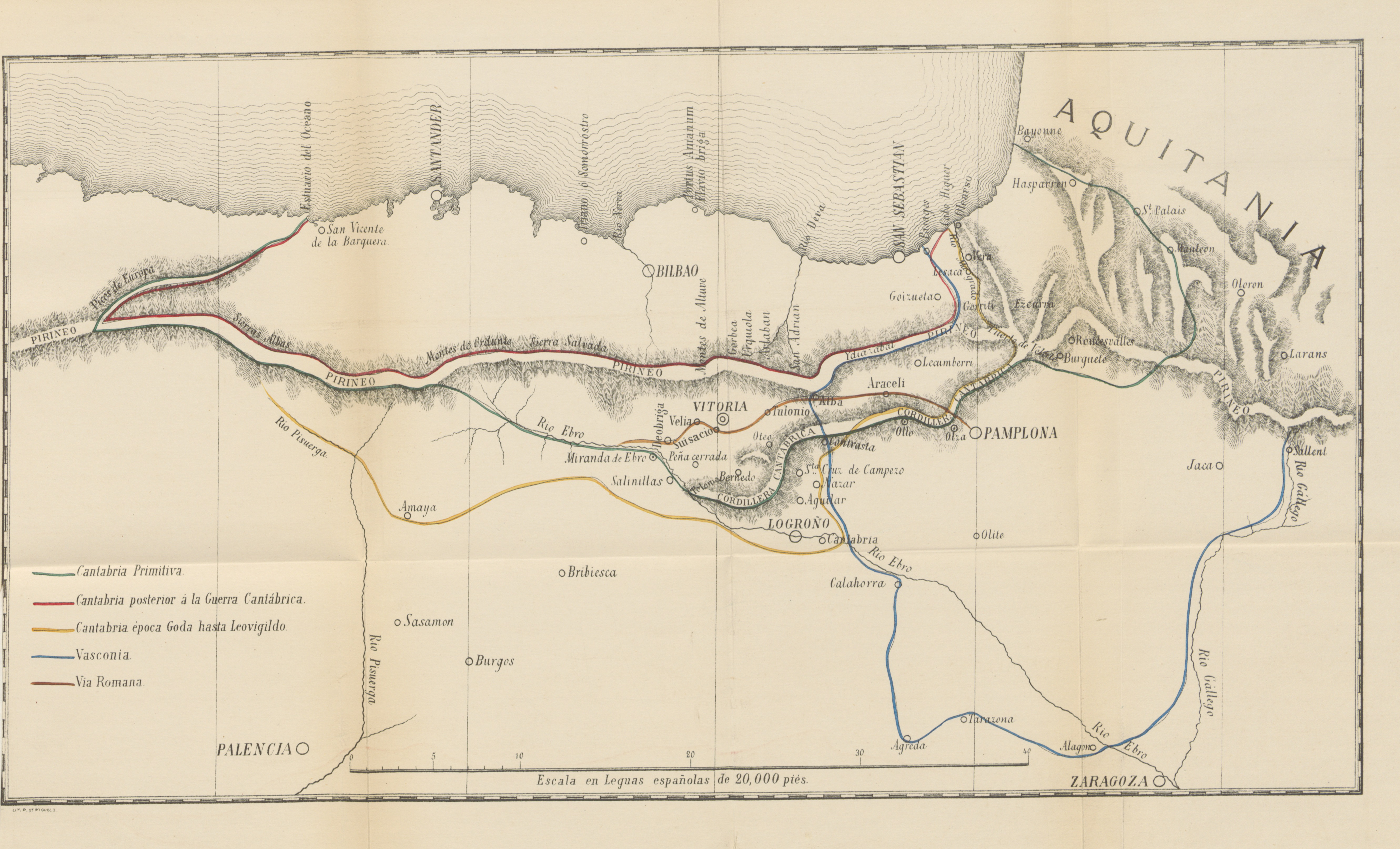 View this map on the BL Georeferencer service. Image taken from: Title: "Los Euskaros en Alava, Guipúzcoa y Vizcaya; sus orígenes, historia, ... costumbres y tradiciones. (Con 11 grabados y un mapa.)" Author: VELASCO Y FERNANDEZ DE LA CUESTA, Ladislao de. Shelfmark: "British Library HMNTS 10007.h.5." Page: 579 Place of Publishing: Barcelona Date of Publishing: 1879 Issuance: monographic Identifier: 003768400 Explore: Find this item in the British Library catalogue, 'Explore'. Download the PDF for this book (volume: 0) Image found on book scan 579 (NB not necessarily a page number) Download the OCR-derived text for this volume: (plain text) or (json) Click here to see all the illustrations in this book and click here to browse other illustrations published in books in the same year. Order a higher quality version from here.